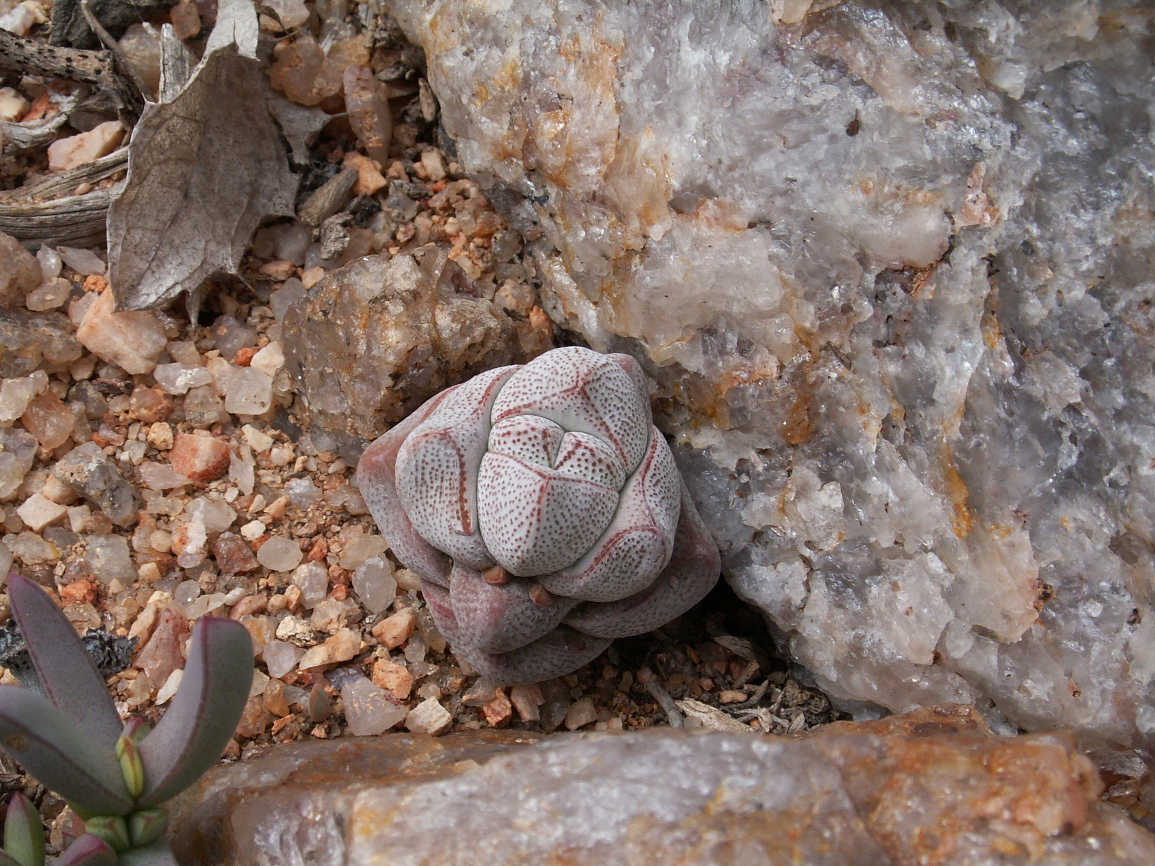 Crassulaceae Crassula deceptor Schönland & Baker f., Richtersveld National Park, Richtersveld Local Municipality, Namakwa District Municipality, Northern Cape, South Africa